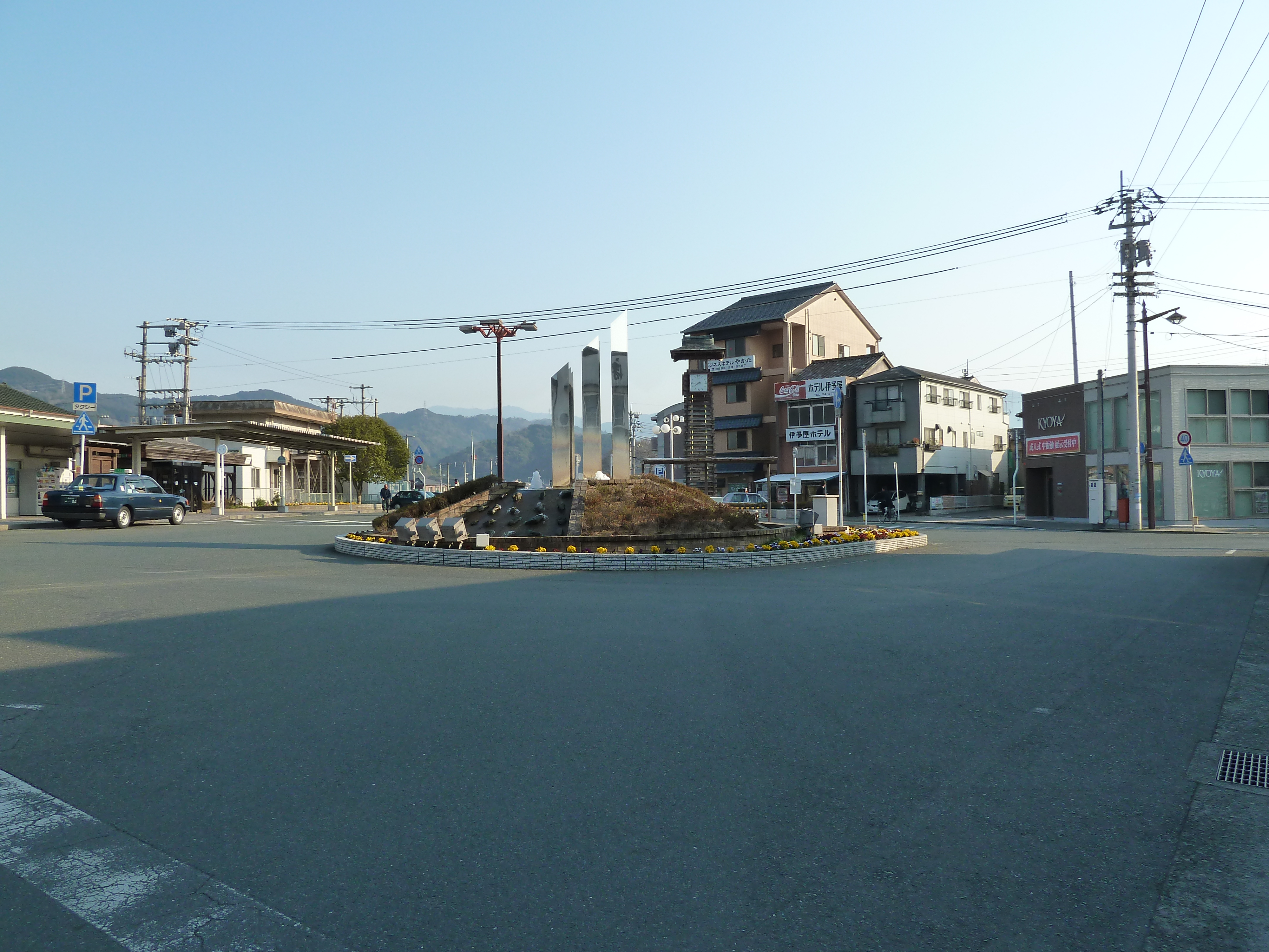 Iyo-Ozu Station front